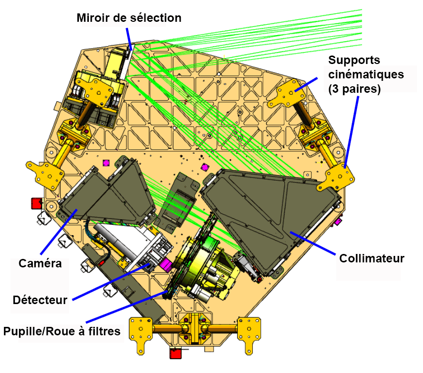 JWST-NIRISS-Optical-layout